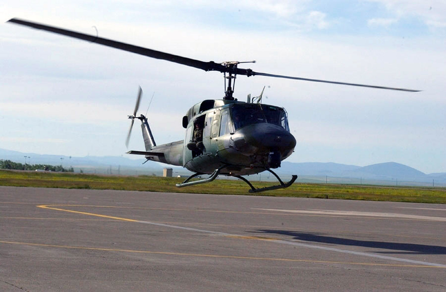 A UH-1N Huey helicopter prepares to land at Malmstrom Air Force Base, Mont. A crew assigned to the 40th Helicopter Squadron from Malmstrom AFB rescued an injured hiker Aug. 10 near Cook City, Mont., just north of the Montana-Wyoming border.